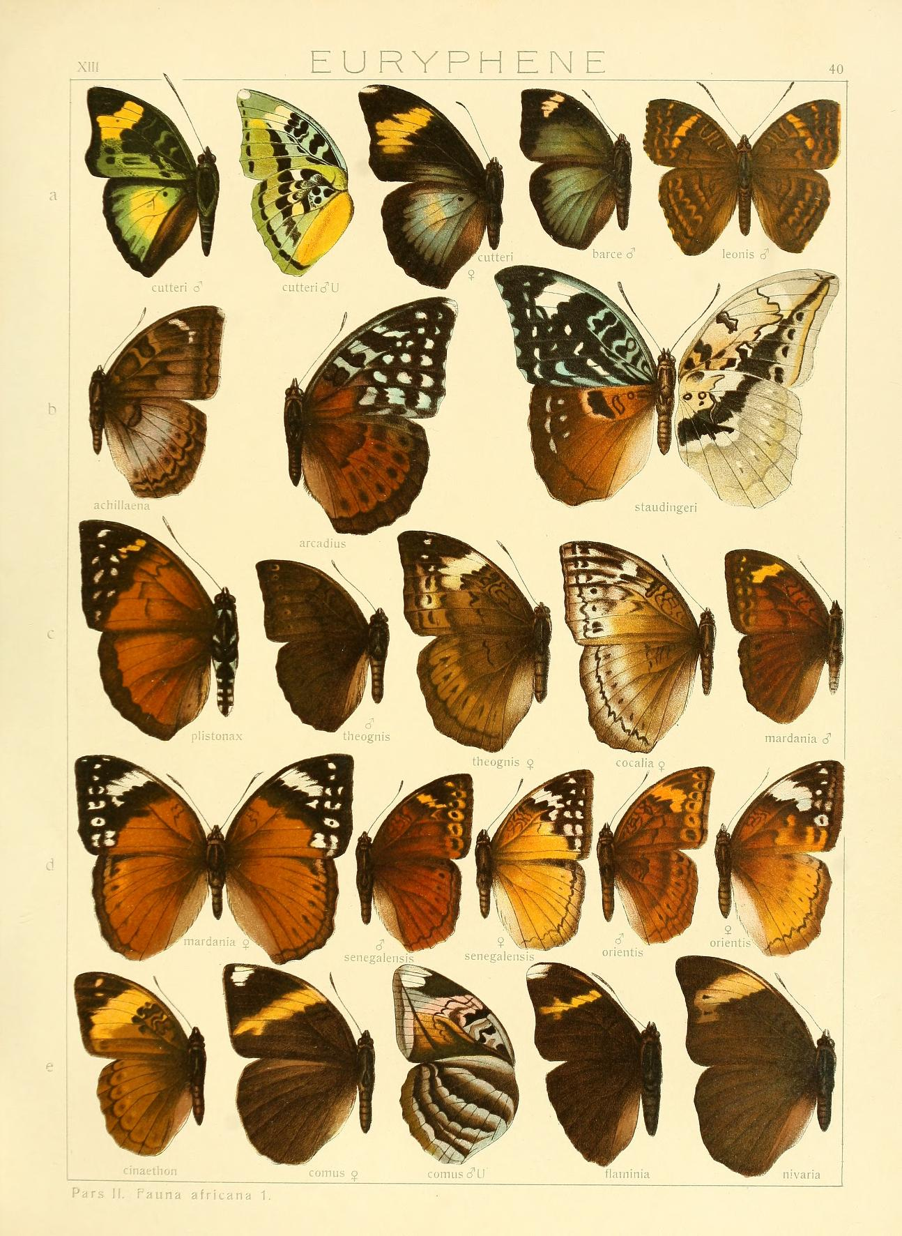 Adalbert Seitz Die Gross-Schmetterlinge der Erde 13: Die Afrikanischen Tagfalter. Plate XIII 40 Bebearia barce (Doubleday, 1847) ab. achillaena Bartel, 1905 Euryphene theogonis Hewitson, 1864 synonym for Bebearia mardania